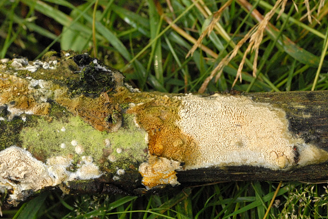 Schizopora paradoxa from Commanster, Belgium. If you think this is a different taxon, please contact James Lindsey.